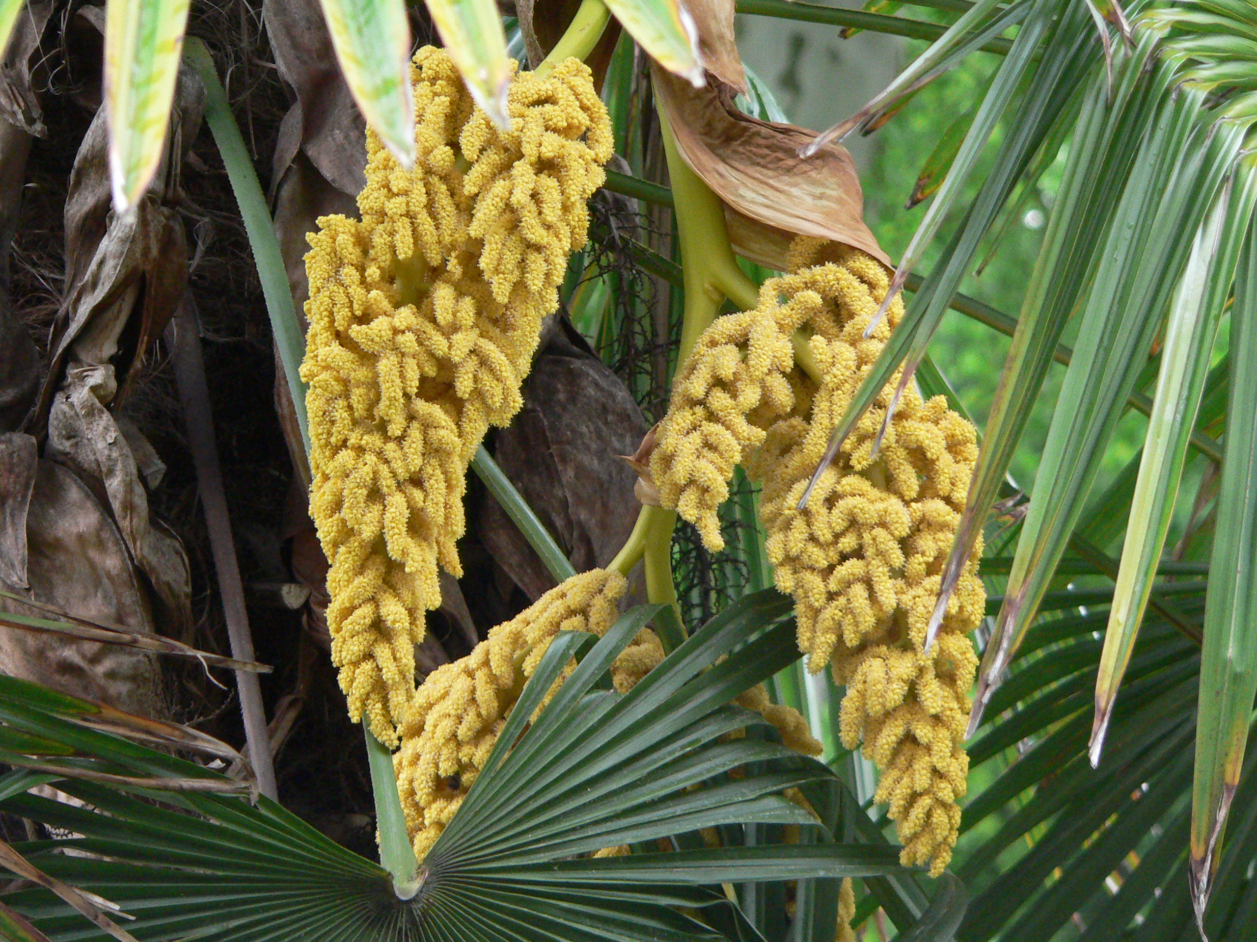 Livistona chinensis - Blüten / blossoms